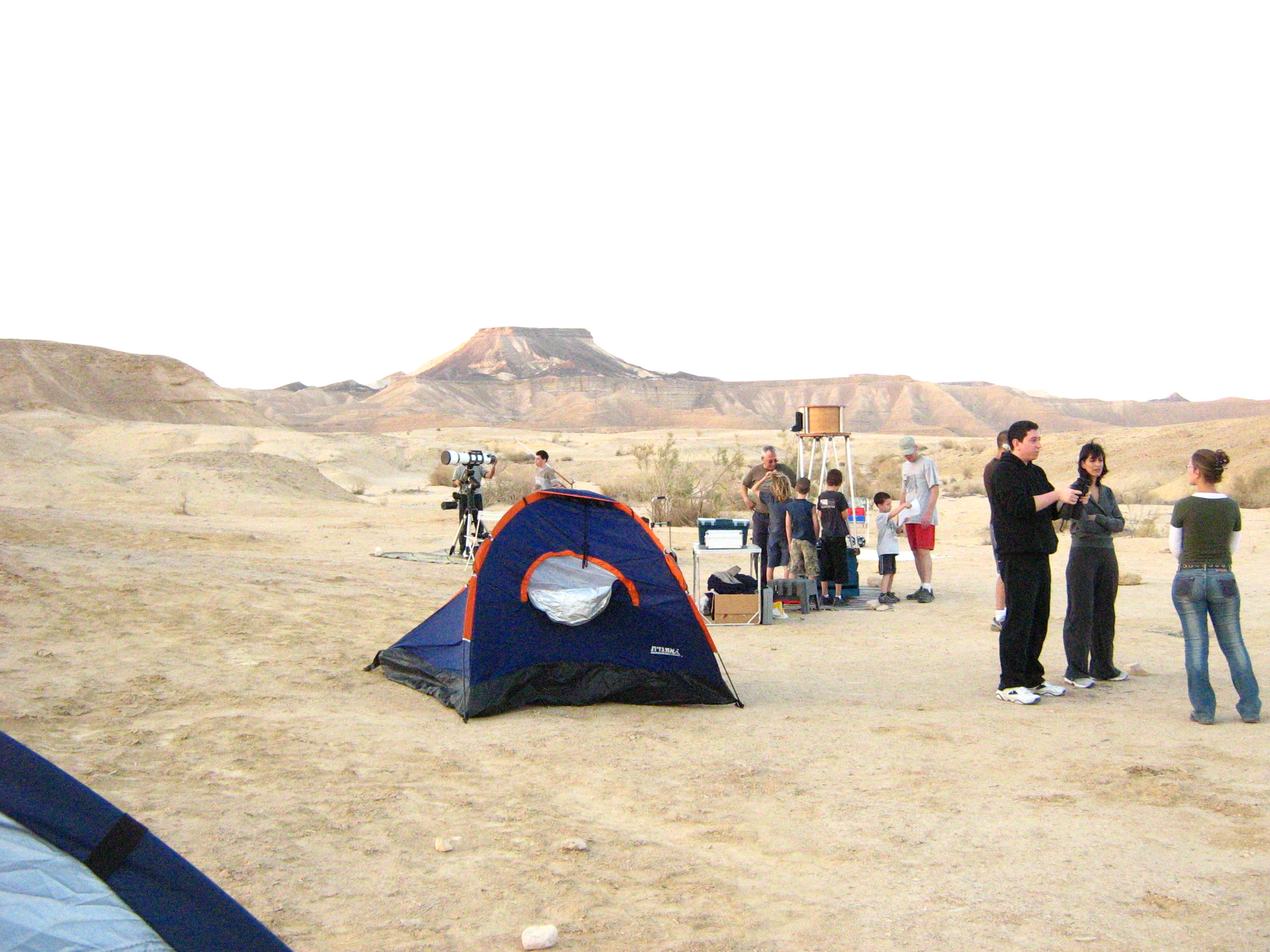 Amateur astronomers gather in Nahal Nikrot in the Negev desert, Israel, for a pleasant night of stargazing.